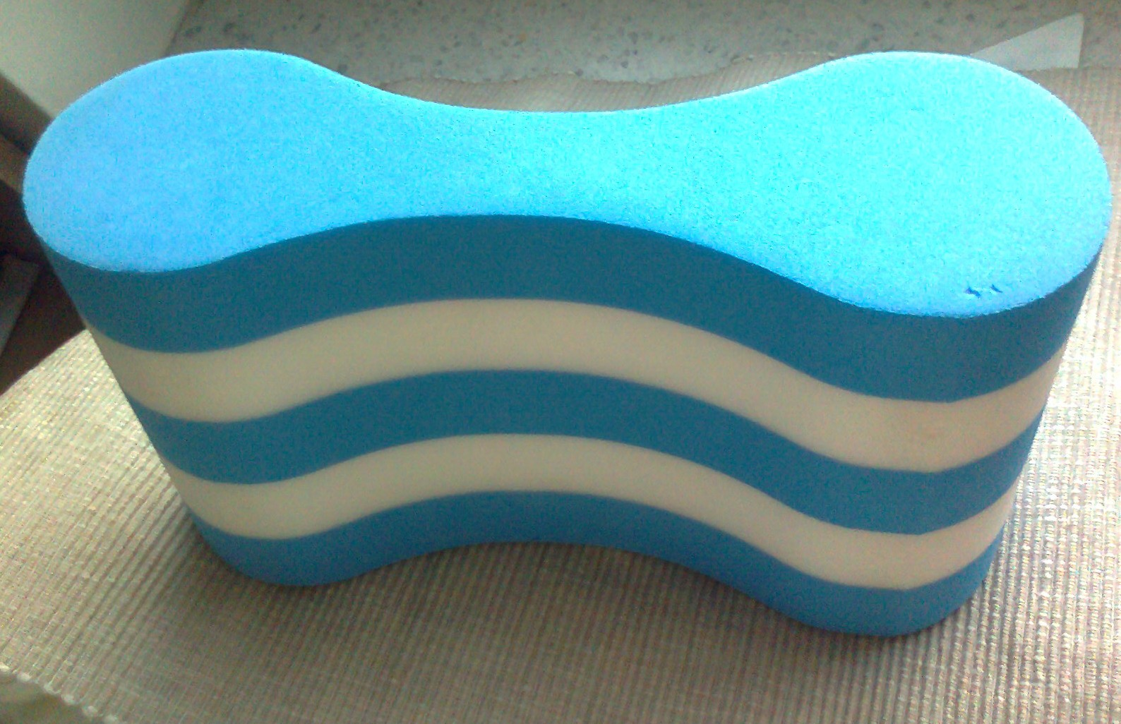 Pull buoy, tool for swim training, to put between the legs, to train arms